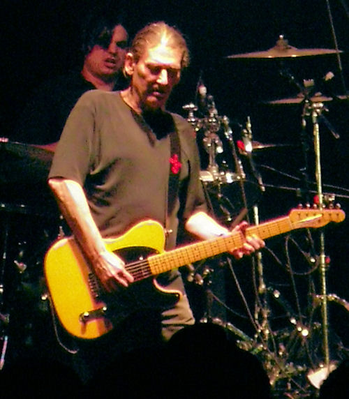 Allen Lanier of the American hard rock band Blue Öyster Cult, playing live in 2006